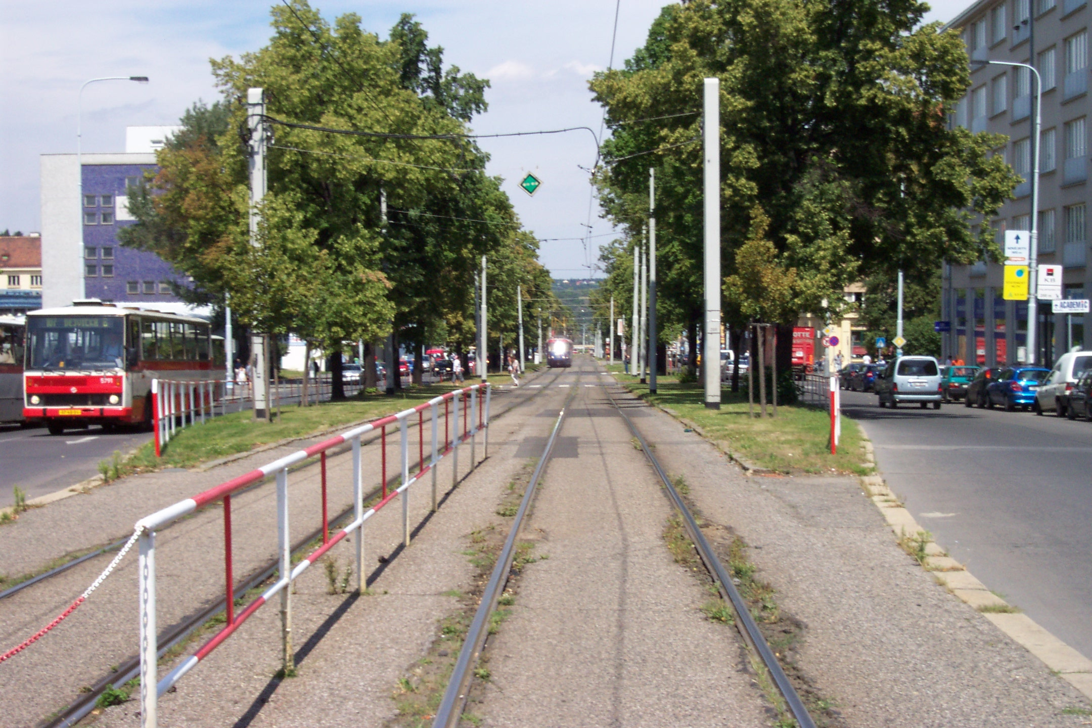 Street Jugoslávských partyzánů in Praguehelp